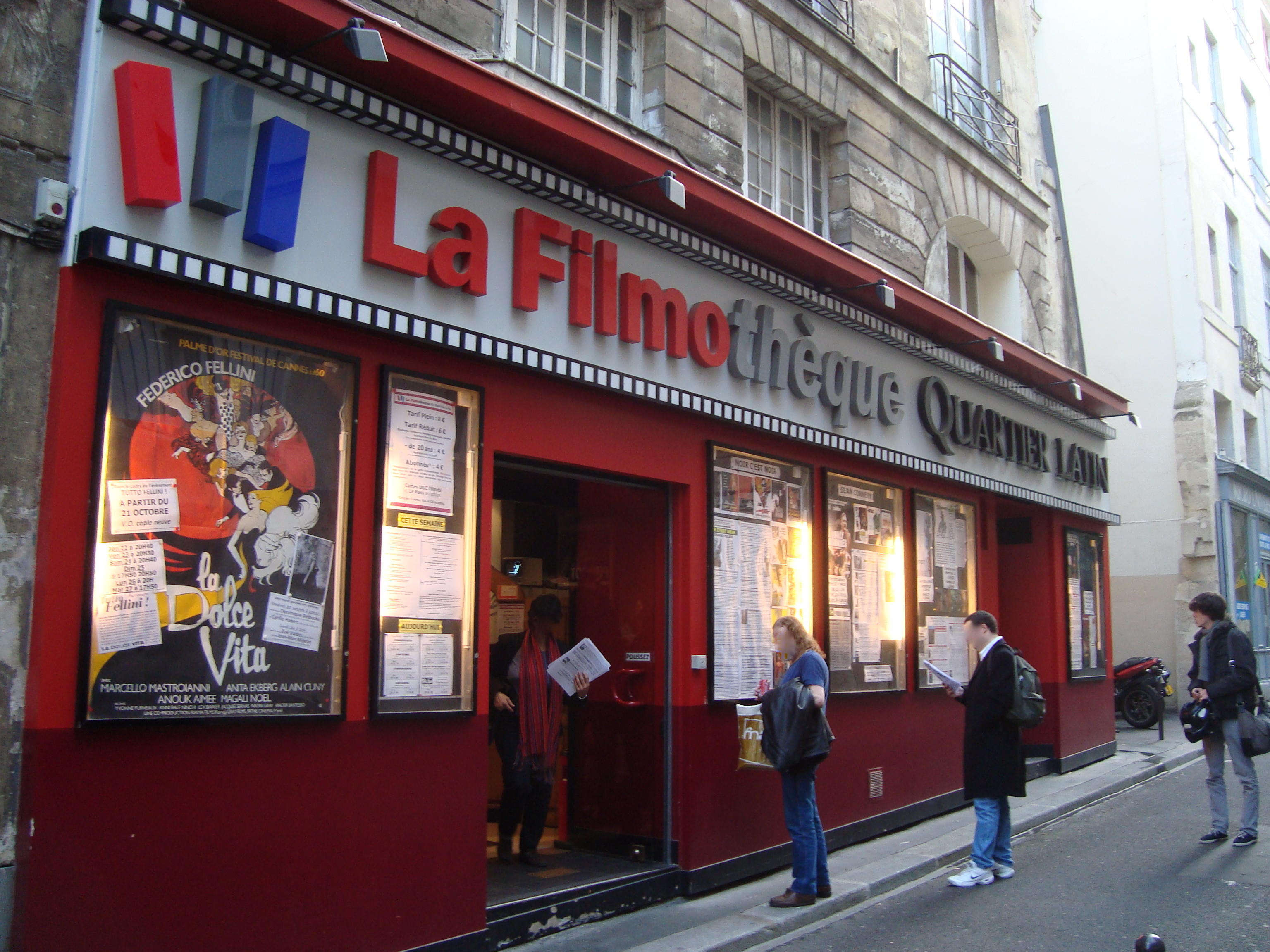 The Filmothèque du Quartier latin in Paris 5th arrondissement